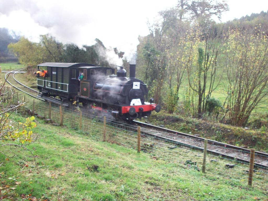 Steam engine 1827 on the Tanat valley light railway